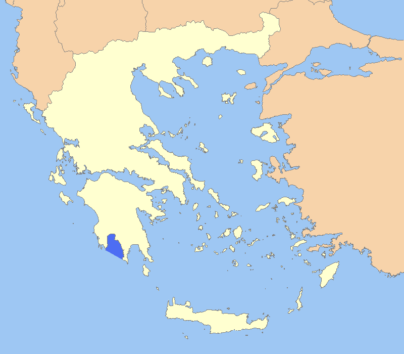 A blank map of Greece with the Messenian Gulf highlighted